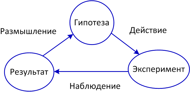 Science basic scheme of gameplay loop